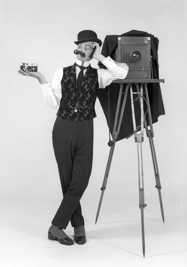 Turners staff member, Dave Grey, models for a publicity shot, June 1961 (TWAM ref. DT.TUR/2/26788F). To read a blog about Turners advertising techniques Tyne and Wear Archives presents a set of images taken by the Newcastle-based firm Turners (Photography) Ltd. They were taken by the firm on is own account for possible use in their advertising campaigns. Turners frequently hired models to help promote their work and to encourage sales in their shops. Some of the shots are humorous or bizarre while others are quite suggestive. The images are fascinating for what they tell us about the times that produced them – the fashions, the attitudes, the technology … Most of the images are quirky and almost seem to invite comments. If you’d like to suggest alternative captions we’d be delighted to hear them! (Copyright) We're happy for you to share this digital image within the spirit of The Commons. Please cite 'Tyne & Wear Archives & Museums' when reusing. Certain restrictions on high quality reproductions and commercial use of the original physical version apply though; if you're unsure please .